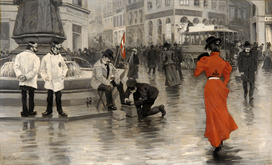 Painting of a street scene in which Dannebrog and woman's red dress stand out against otherwise monochrome canvas. Women's clothing styles appear to be of the 1890s.